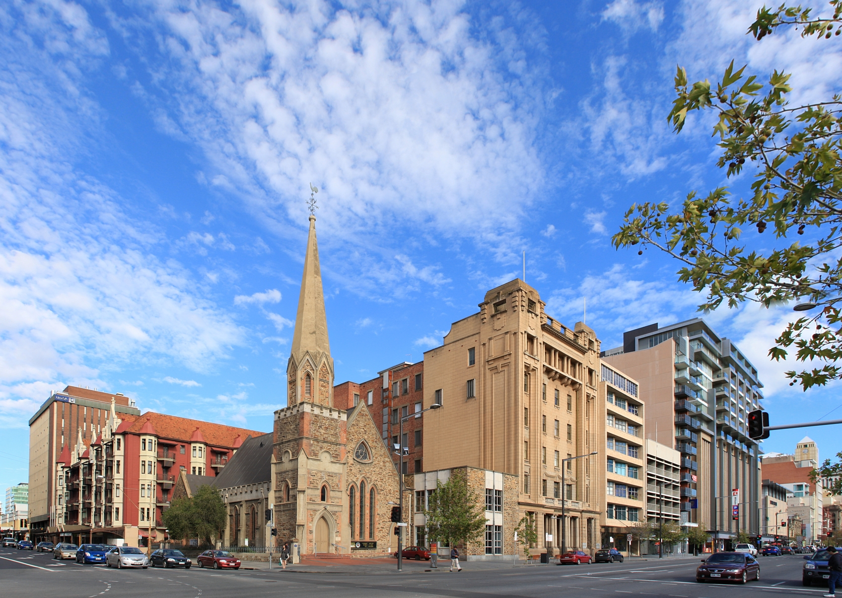 Nth TCE Adelaide